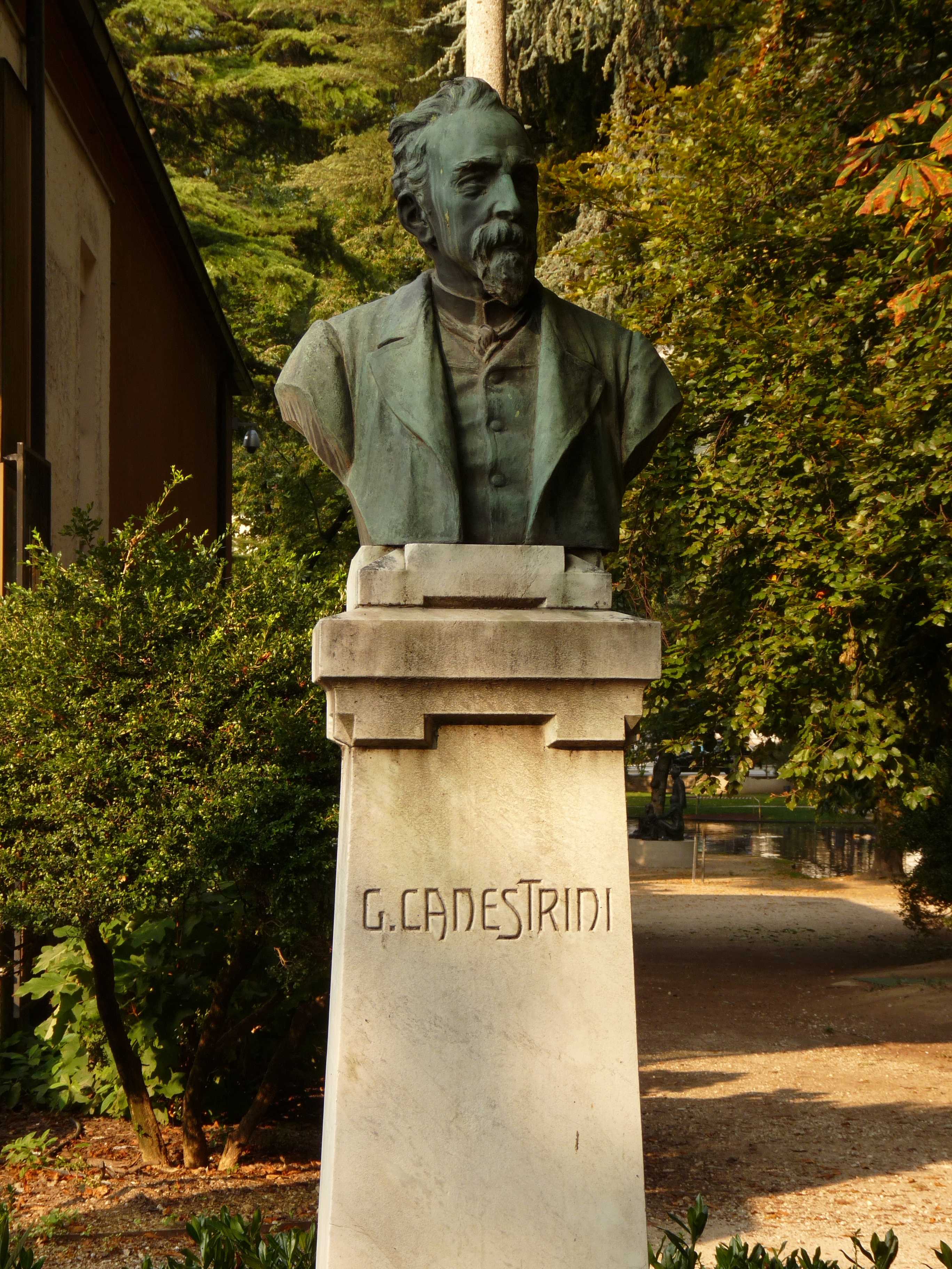 Trento (Italy): bust of Giovanni Canestrini by Andrea Malfatti in Dante square